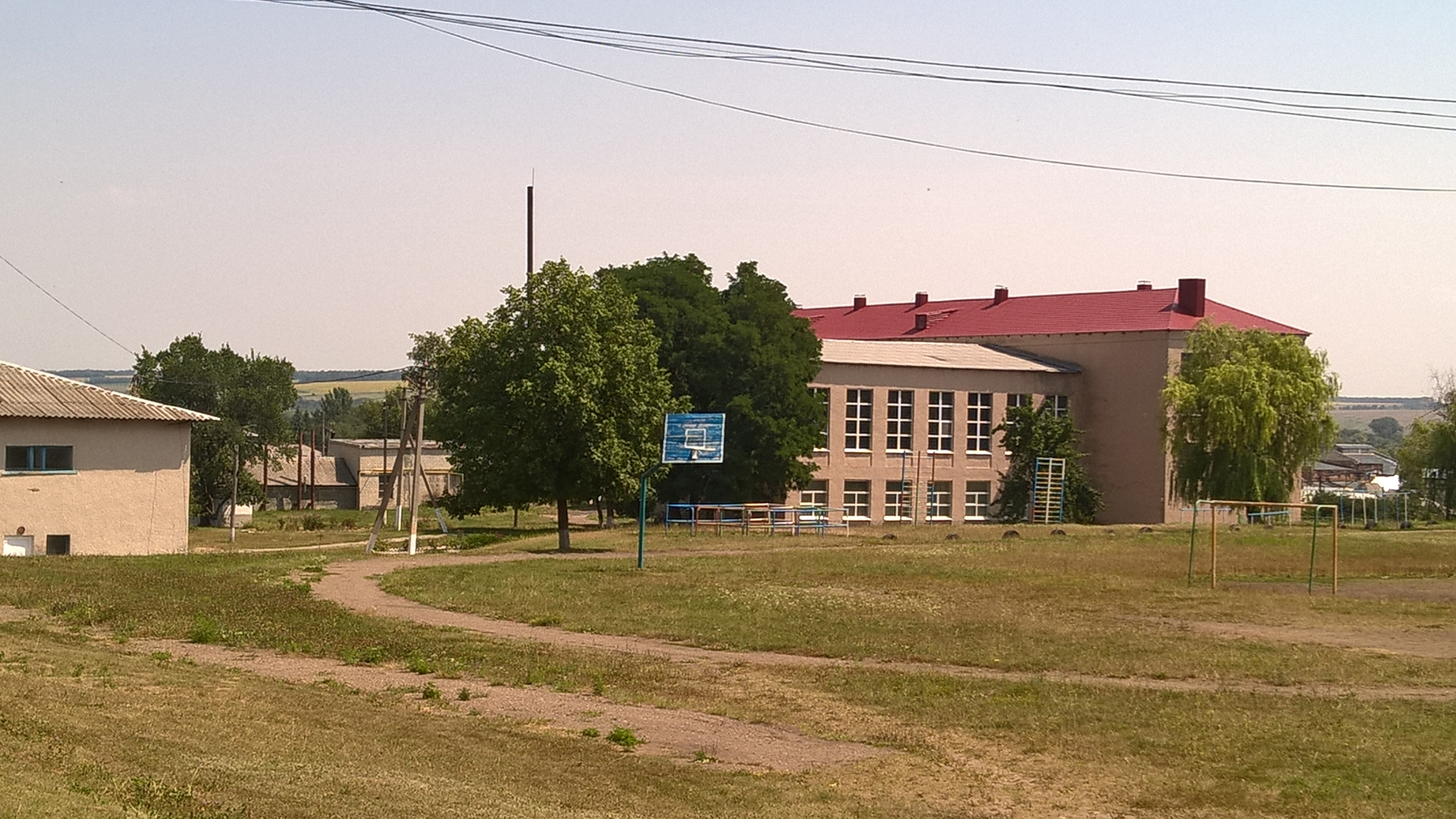 School in Troitske, Luhansk region, Ukraine.